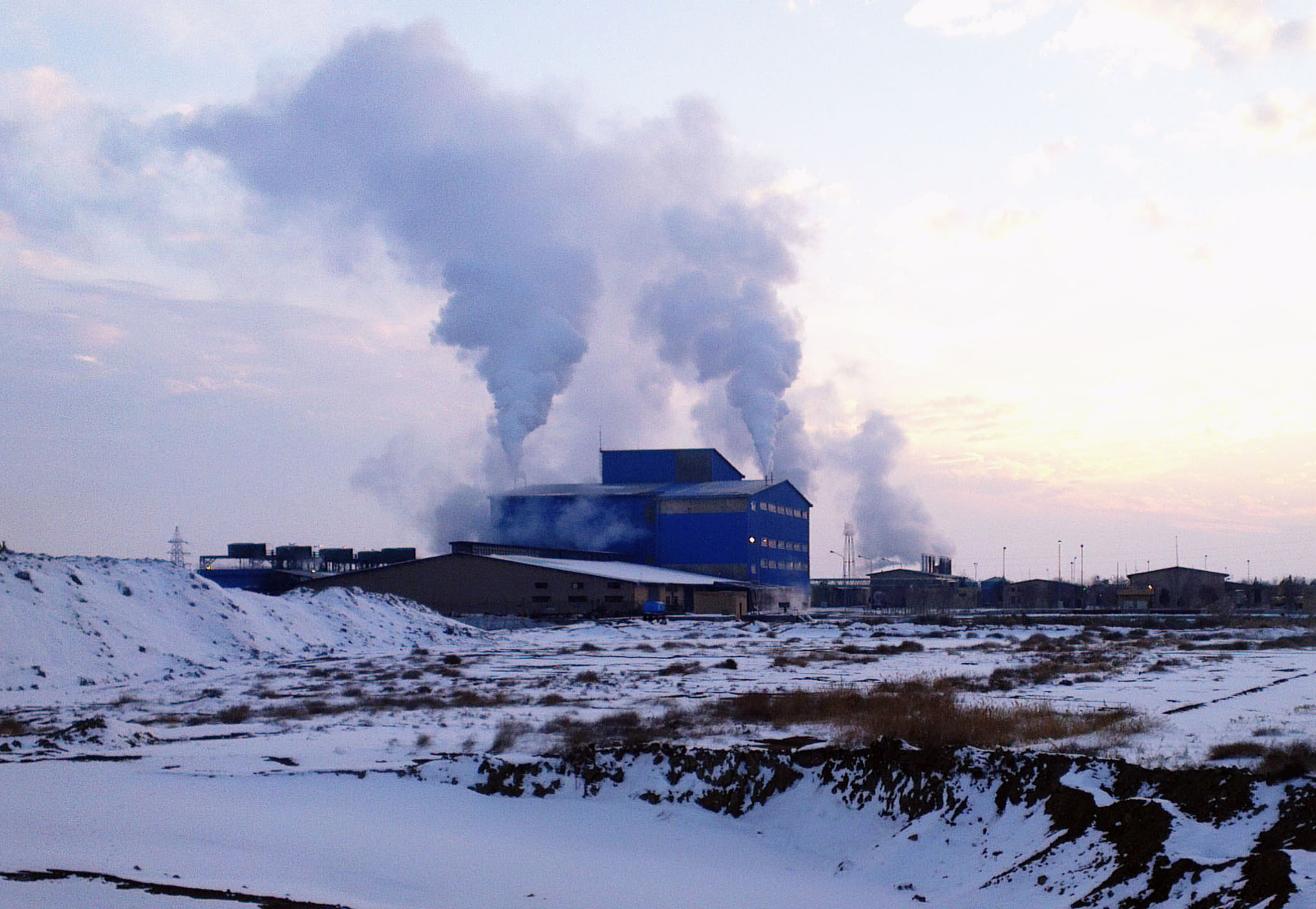 Iran Amlah Company (Arak Branch) near Meyghan Salt Lake.